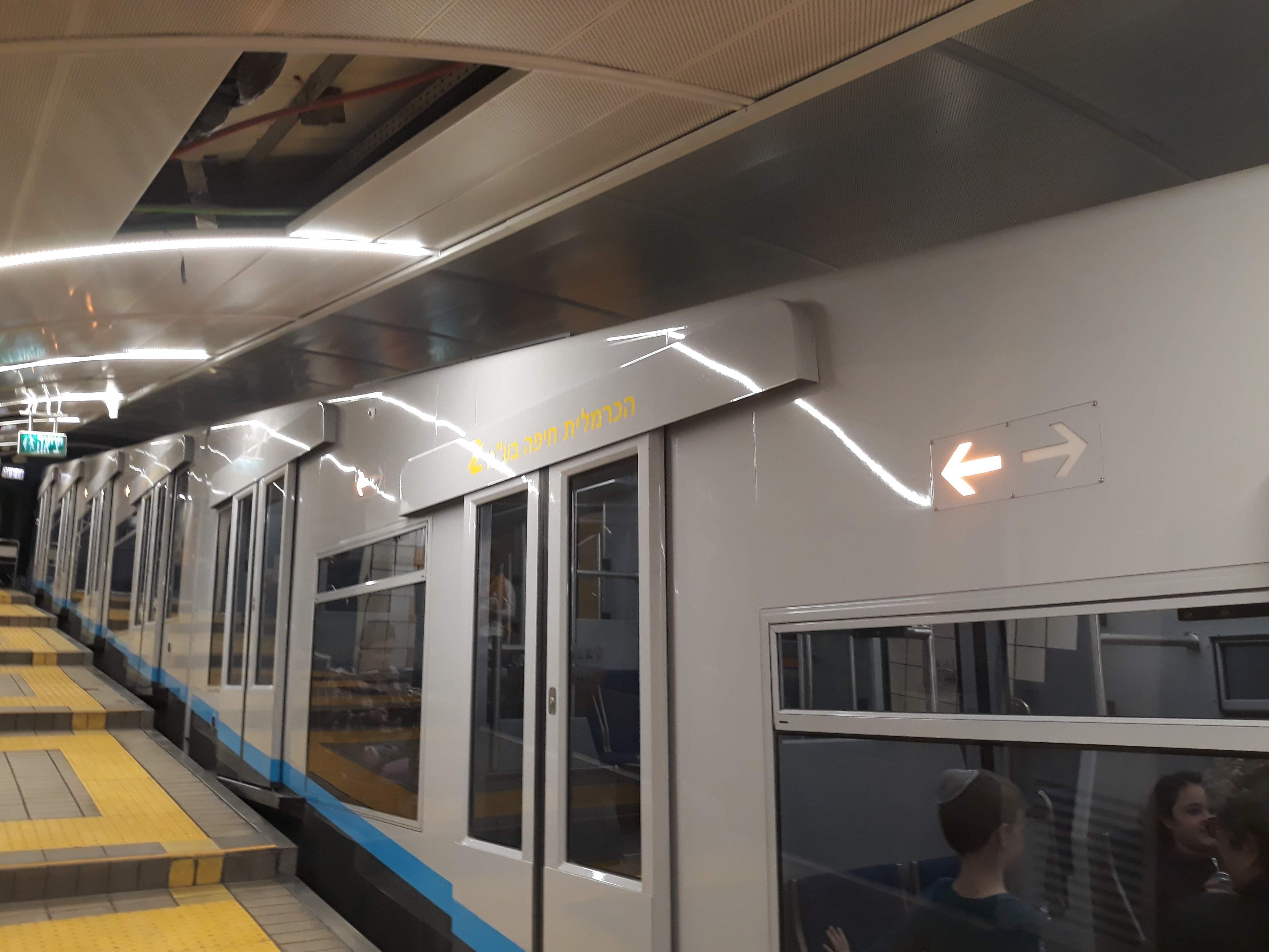 Carmelit subway in Haifa after its reopening in 2018